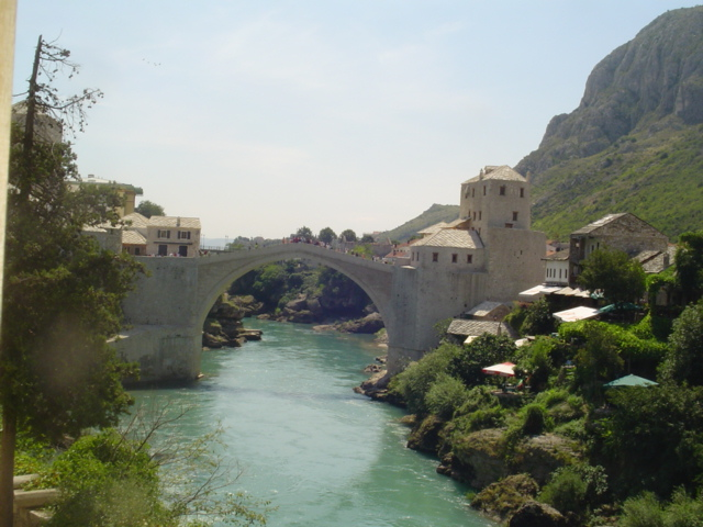 Old Bridge (Stari most) in Mostar.